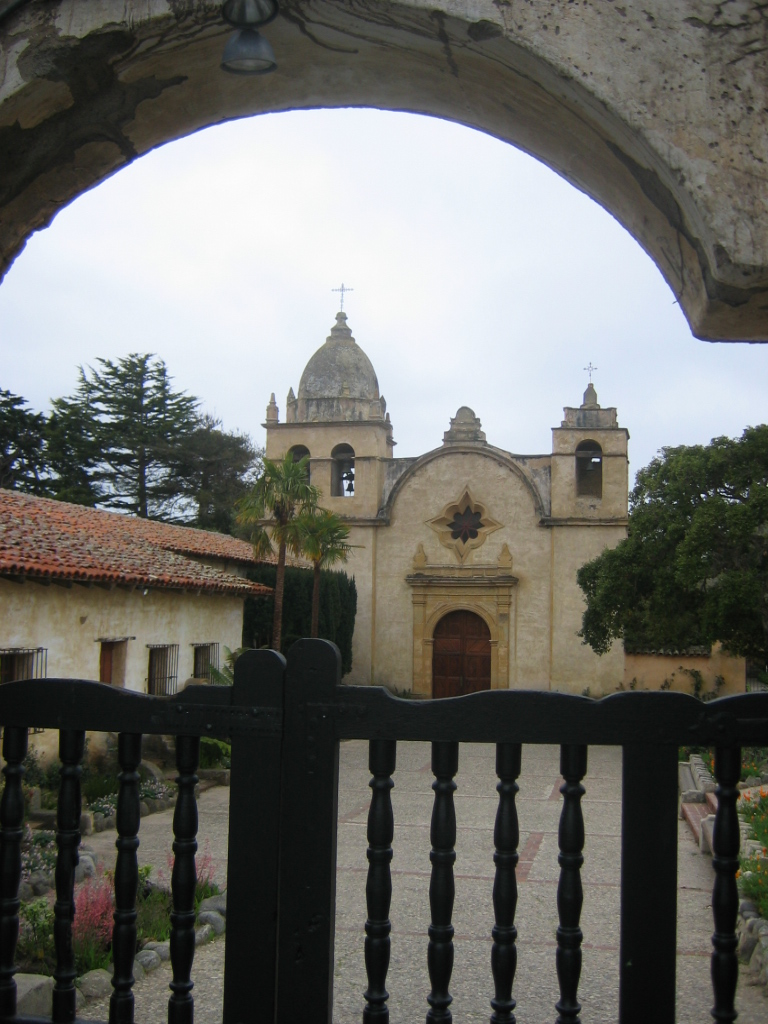 Description : Mission San Carlos Borromeo, Carmel, California, USA. Author : own work, Urban ; I took this picture on April 2006.